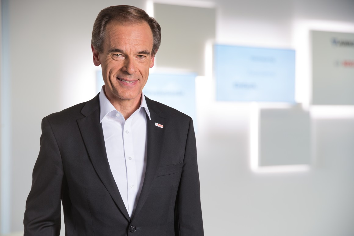 Dr. Volkmar Denner, Chairman of the board of management of Robert Bosch GmbH